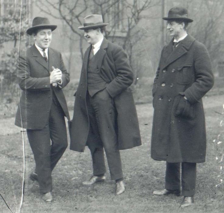 Harry Boland (left), Michael Collins (center), Éamon de Valera (right).